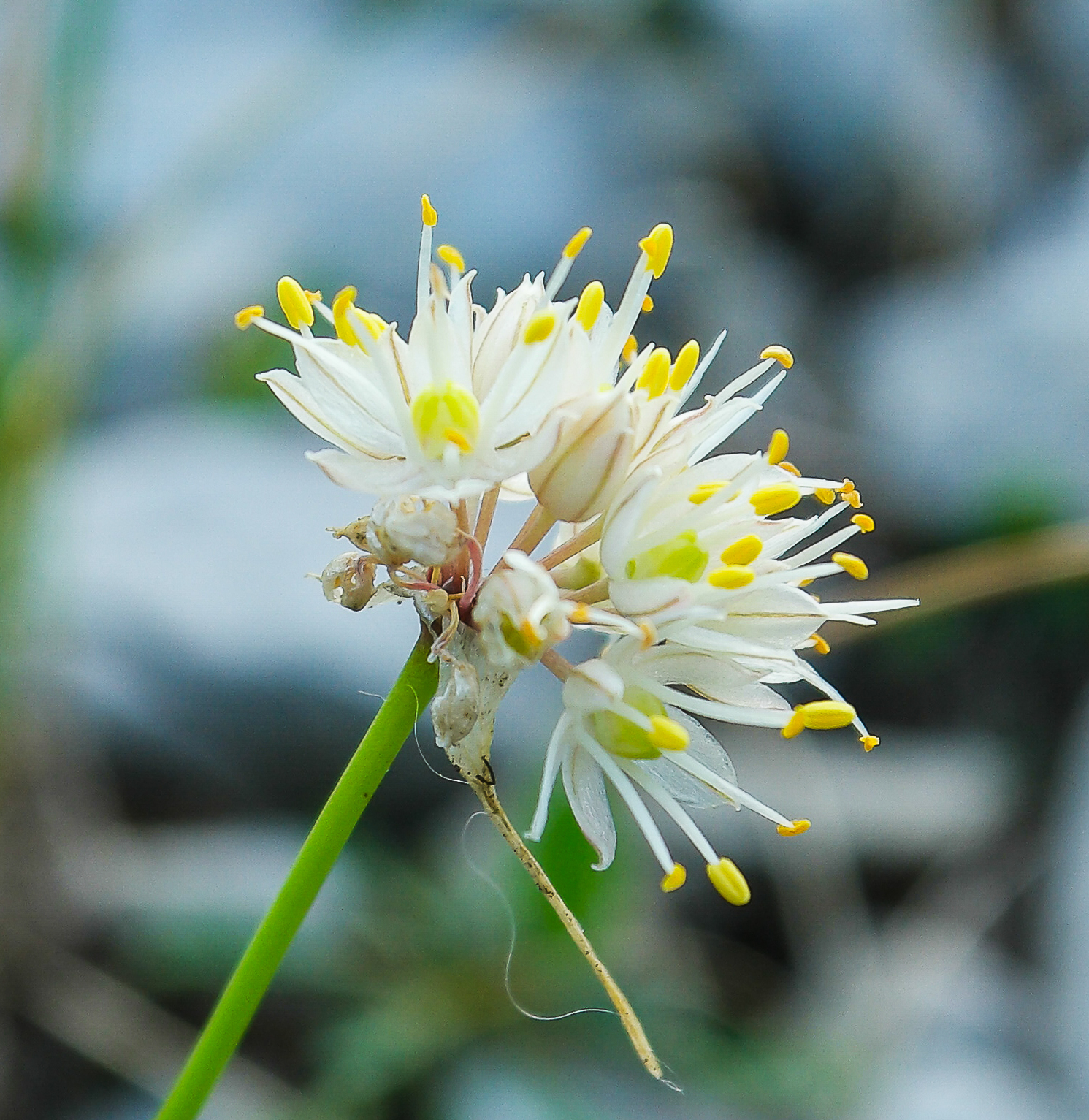 Allium horvatii from the wild Sub Mt. Jastrebica, Opuvani do 1600m Montenegro